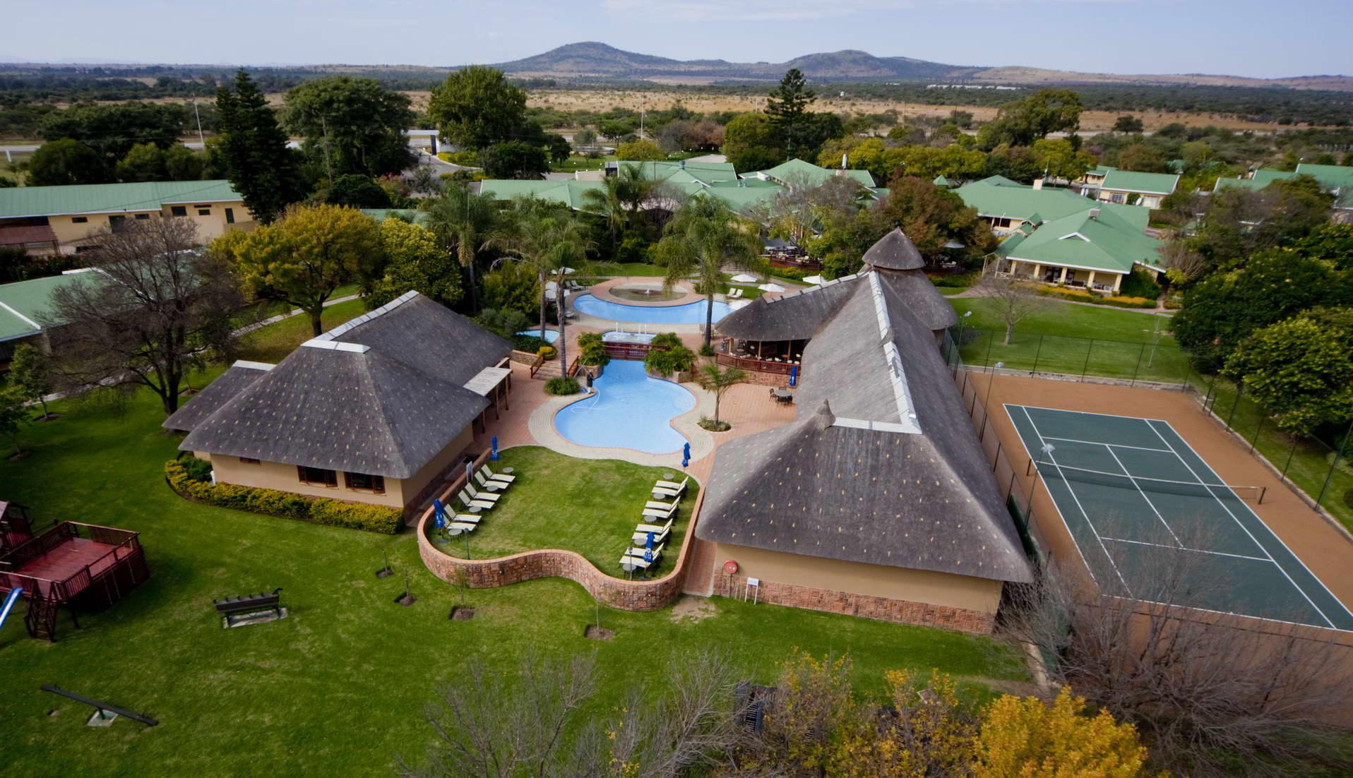 The Ranch Resort The Ranch Resort swimming pools and lapas, aerial photograph by Mike Rumble. It is situated off the N1 route near the Kuschke Nature Reserve, southwest of Pietersburg/Polokwane, Limpopo, South Africa.